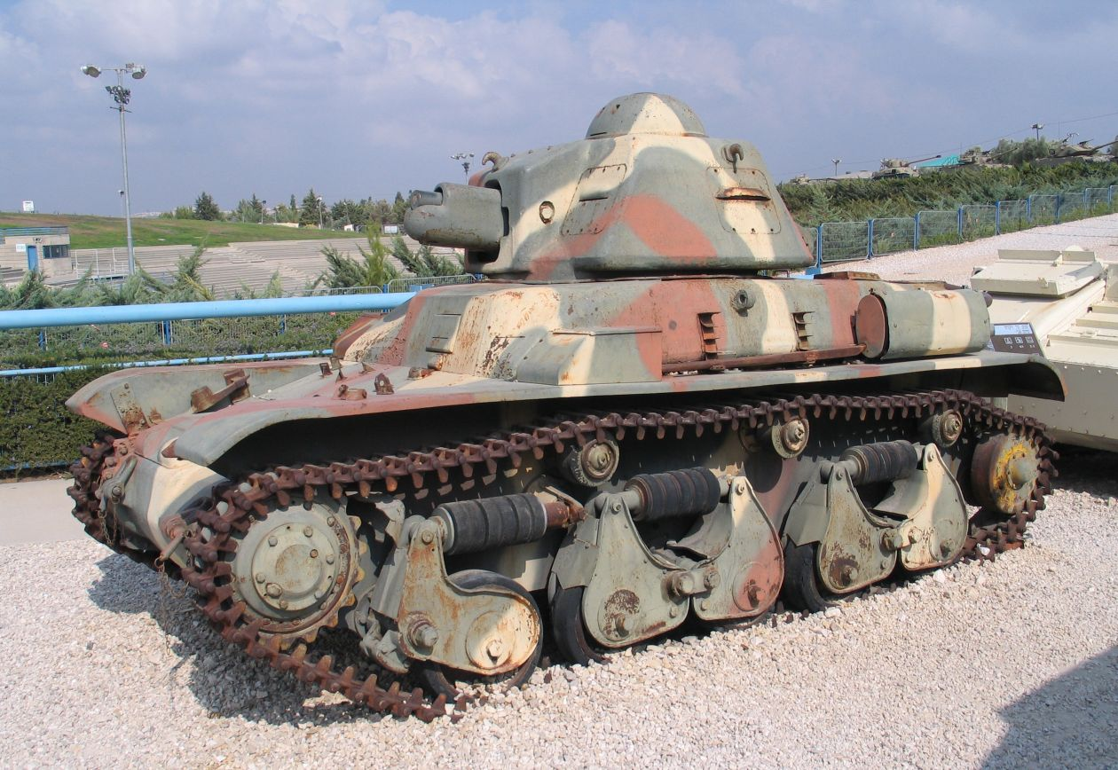 Description: Renault R-35 tank in Yad la-Shiryon Museum, Israel. 2005. Source: Photo by me, User:Bukvoed.